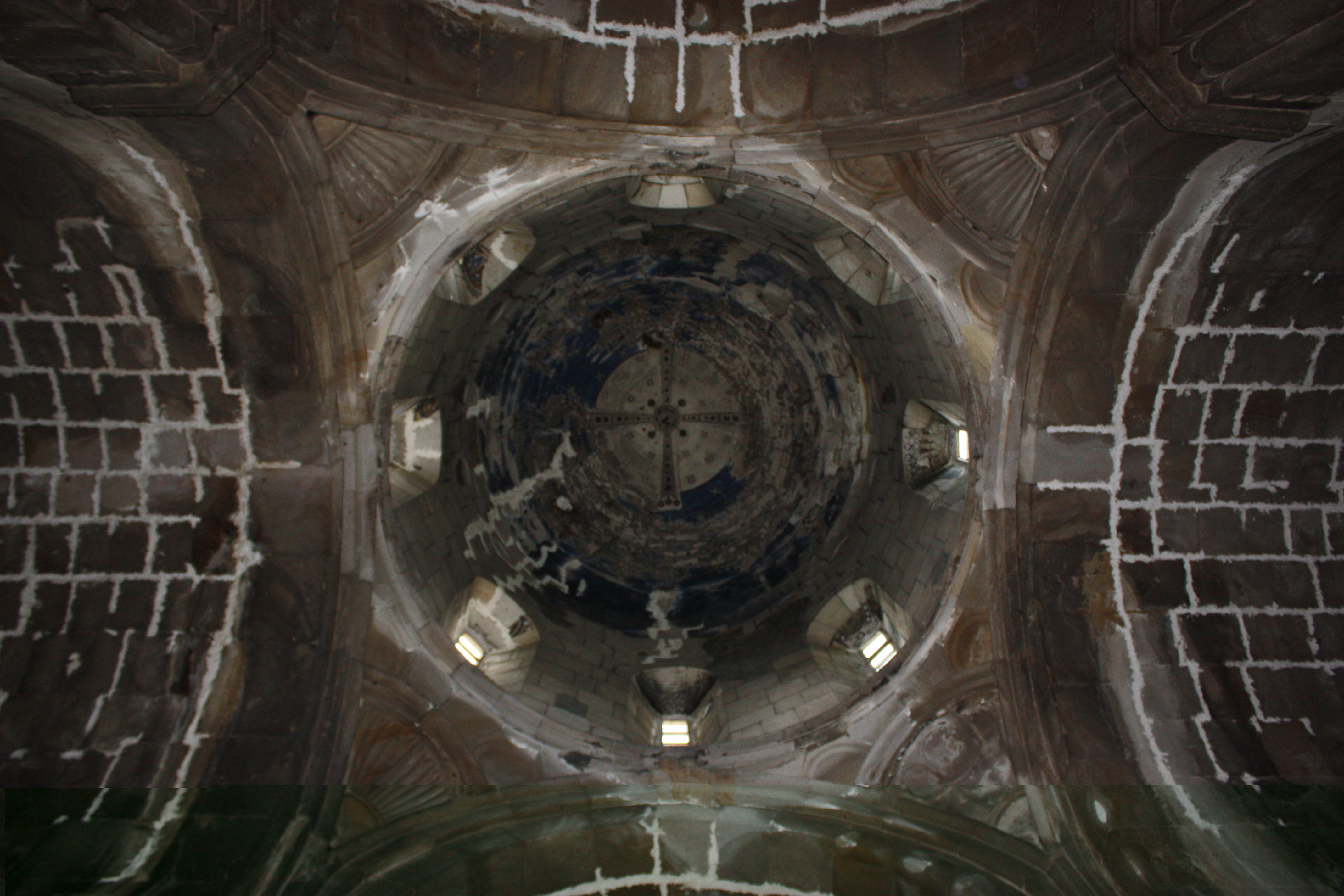 The dome of Khakhuli church, inside, the cross is still saved. Historical Tao-Klarjeti Georgian Kingdom, nowadays Turkey.